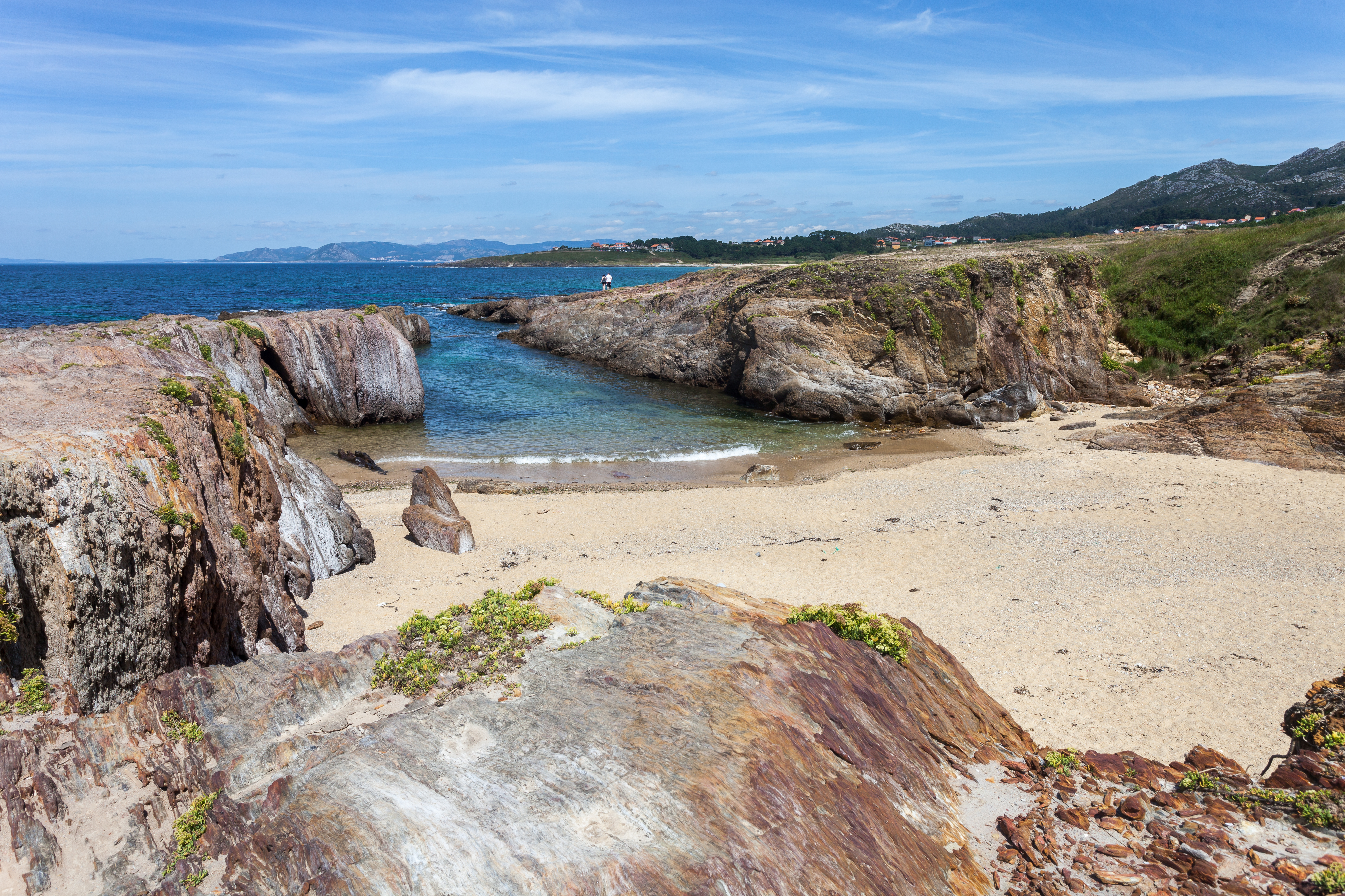 Beach of As Furnas, Xuño, Porto do Son, Galicia (Spain).